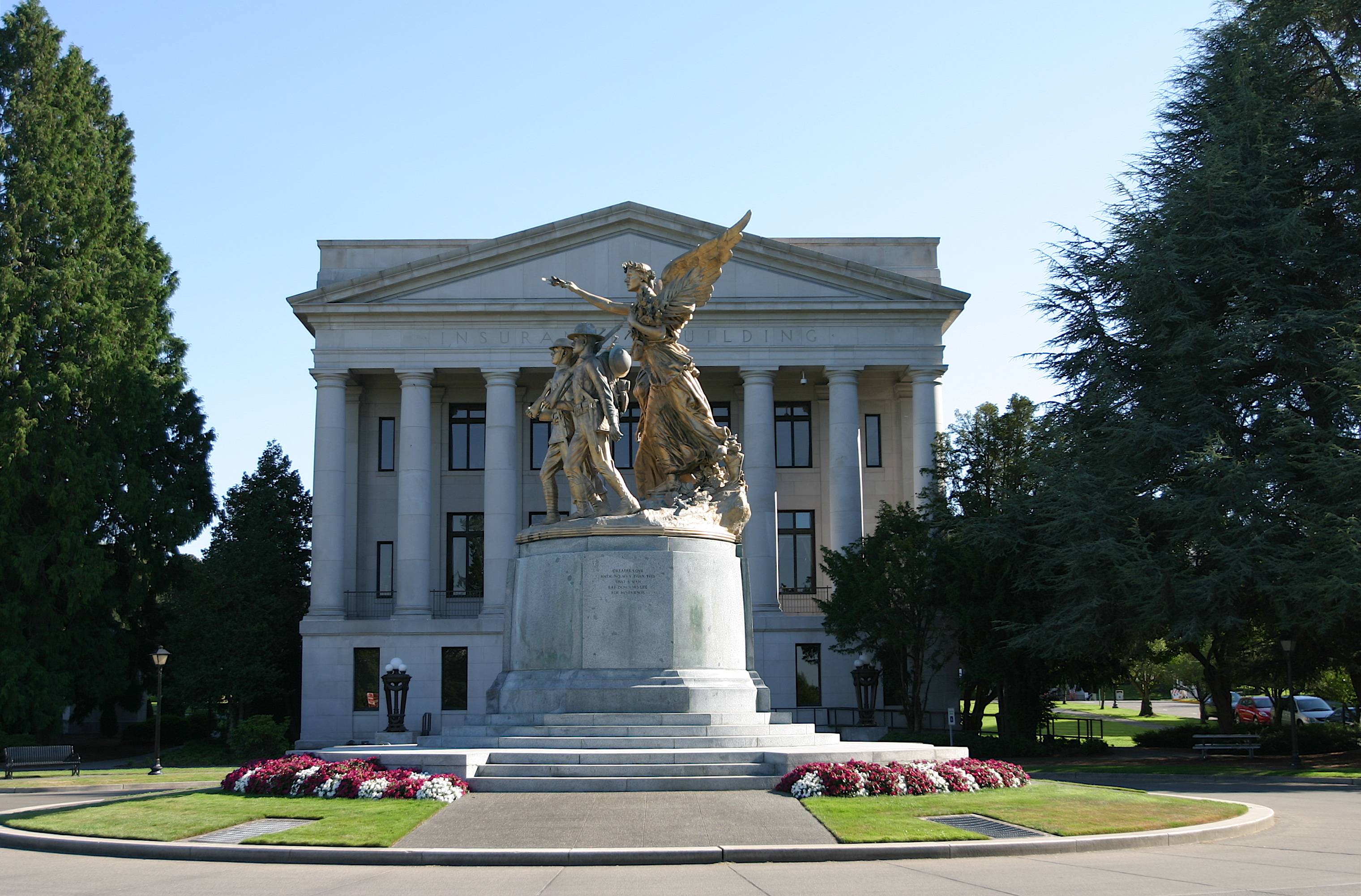 The Insurance Building at the Washington State Capitol in Olympia, Washington.